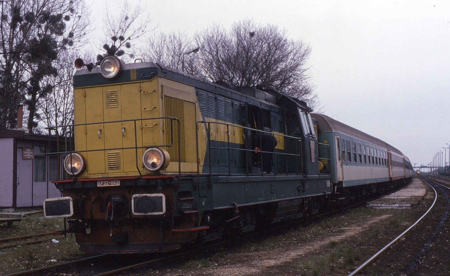 Seen at a station stop at Zawada on 13 November 1994, is single cabbed loco SP32-062. Built in Romania, 150 of these locos fitted with ETH were used mainly on passenger trains. The train was no. 12121, 06:35 Warszawa Zachodnia to Bełzec having taken over from electric traction at Rejowiec.